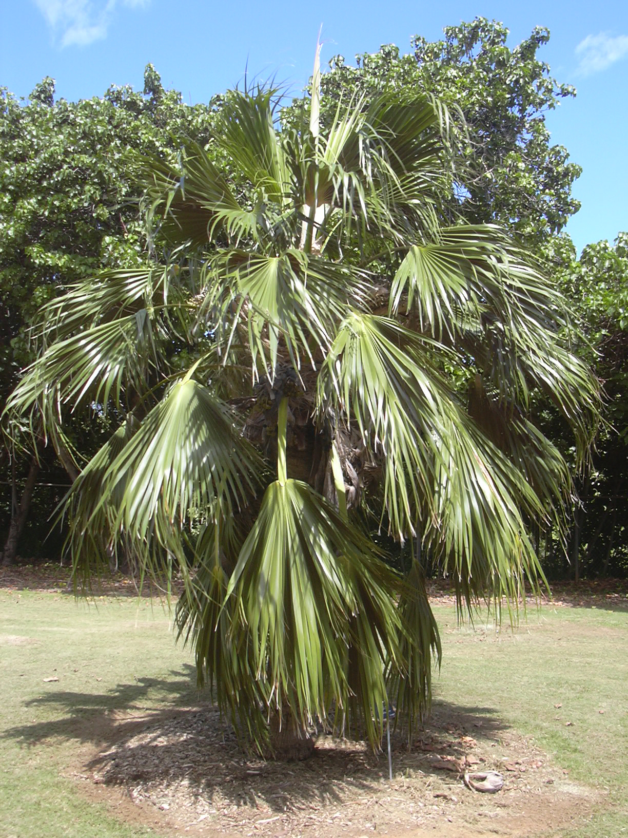 Pritchardia munroi (habit). Location: Maui, Maui Nui Botanical Garden